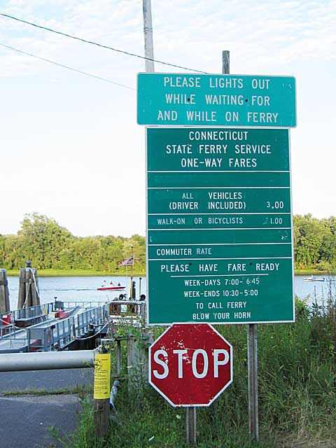 The Rocky Hill to Glastonbury (Connecticut) ferry sign containing instructions, fees, and hours as of this date.